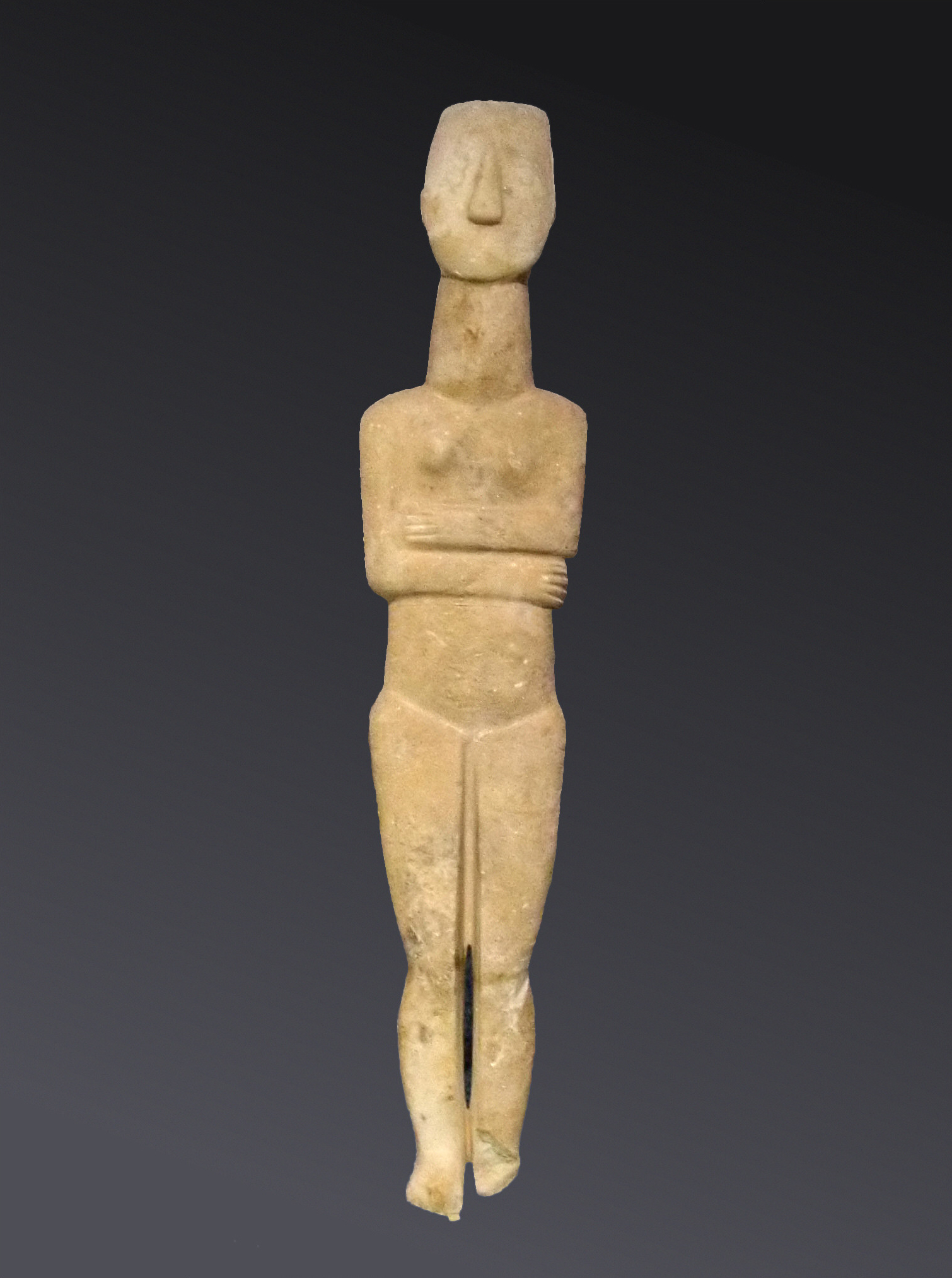 large cycladic figurine, Badisches Landesmuseum, Karlsruhe, Germany, Inventory# 75/49, marble, early bronze age, early cycladic periode II, well preserved, spedos type, H 88.8 cm W 17.8 cm, D 6 cm, supposed to be found on the greek island of Amorgos - this is the second largest cycladic figurine preserved as full body.